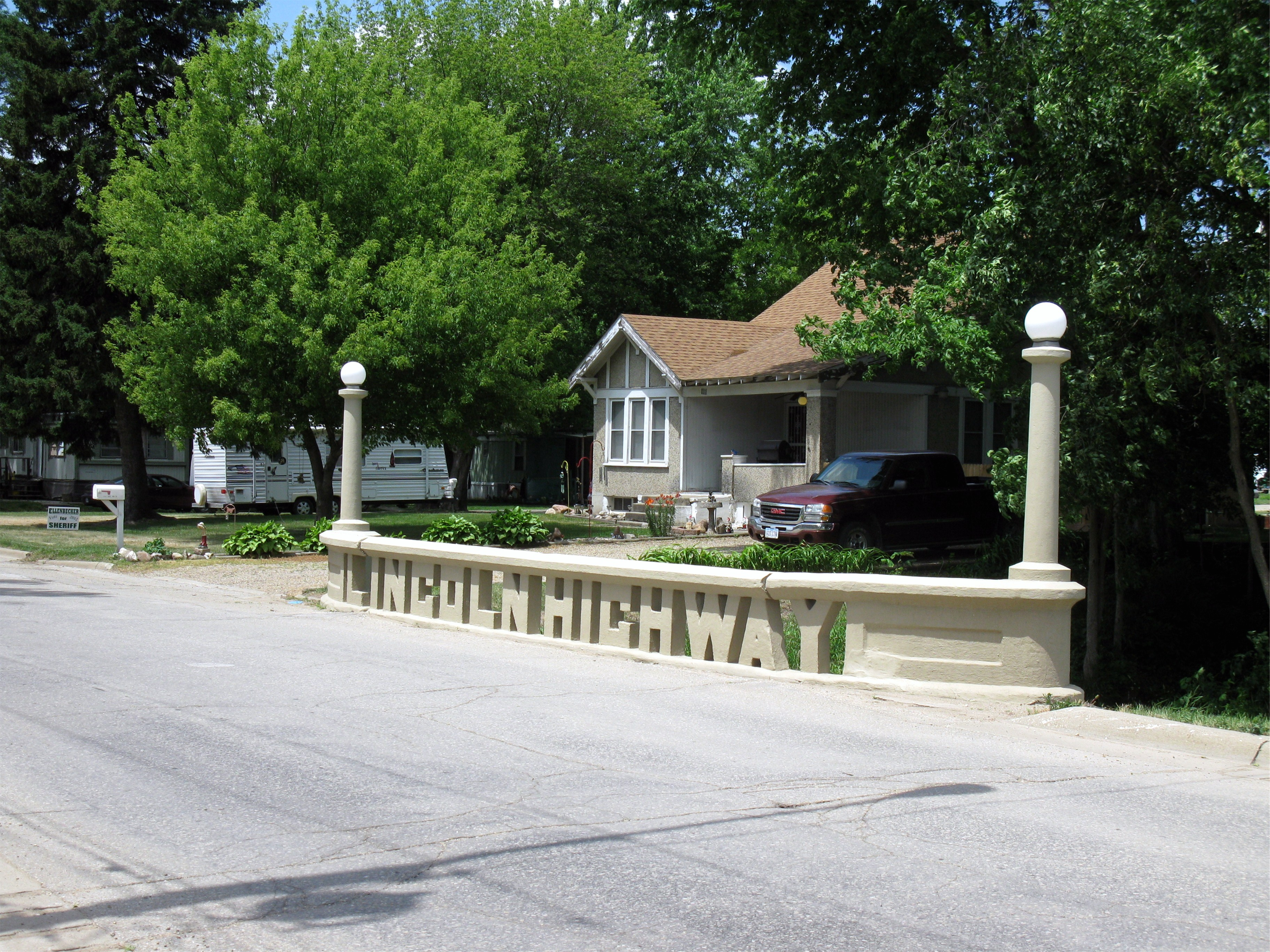 The Lincoln Highway Bridge in Tama, Iowa.